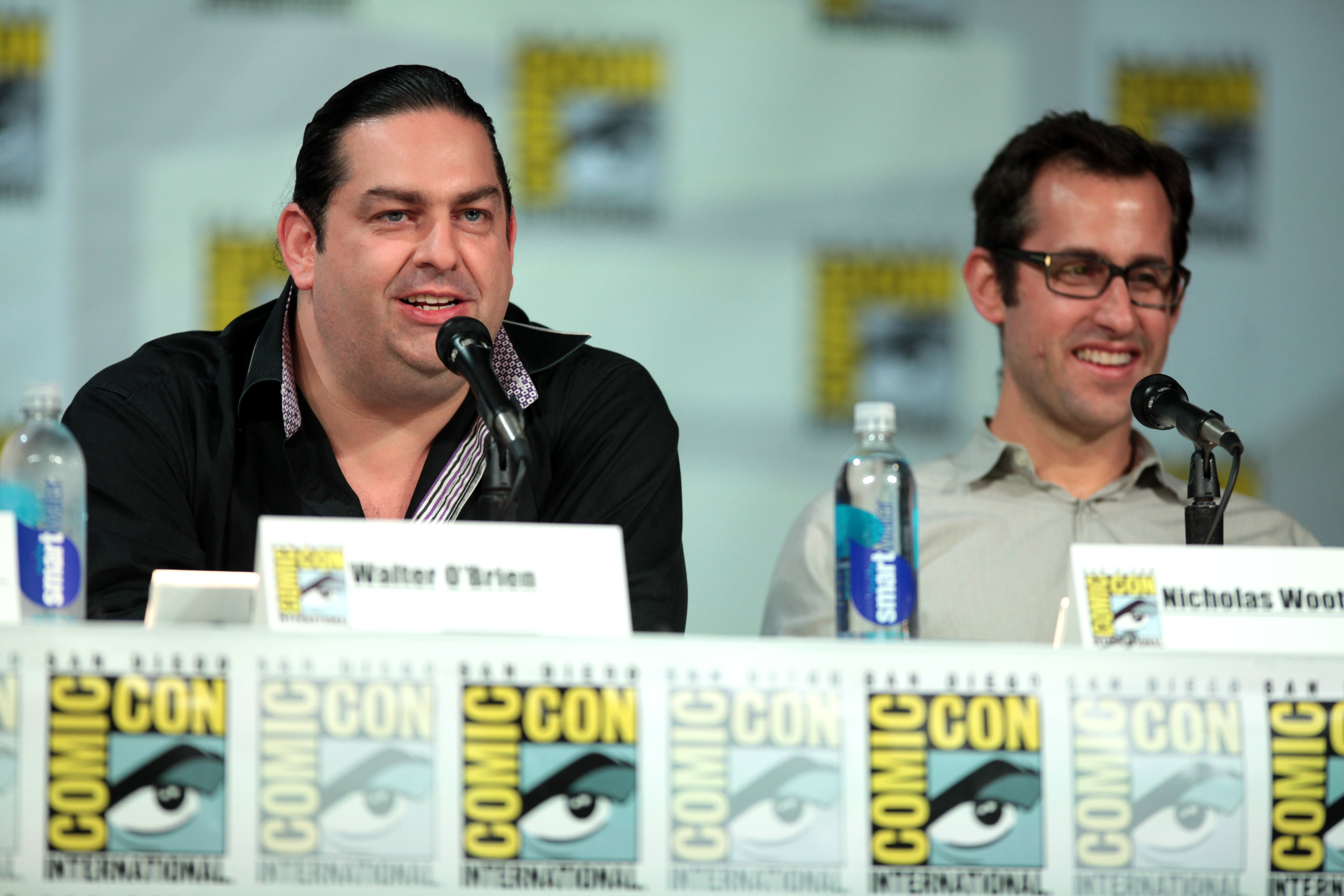 Walter O'Brien and Nicholas Wootton speaking at the 2014 San Diego Comic Con International, for "Scorpion", at the San Diego Convention Center in San Diego, California.